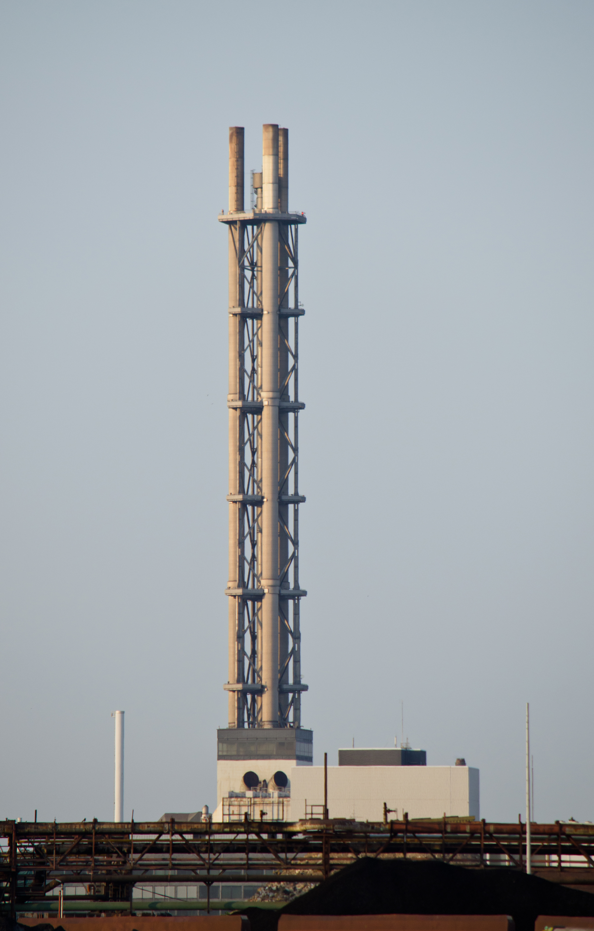 Duisburg (North Rhine-Westphalia, Germany) – borough Mitte, district Dellviertel – Stadtwerketurm This image shows a heritage building in Germany, located in the North Rhine-Westphalian city Stadt (no. 645). This photograph was taken with a Nikon D7000.